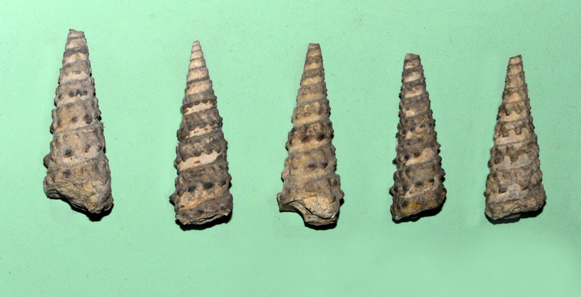 Fossil shells of Potamides tricarinatus from Eocene of Italy, on display at Museo Geologico G. Cappellini, Bologna